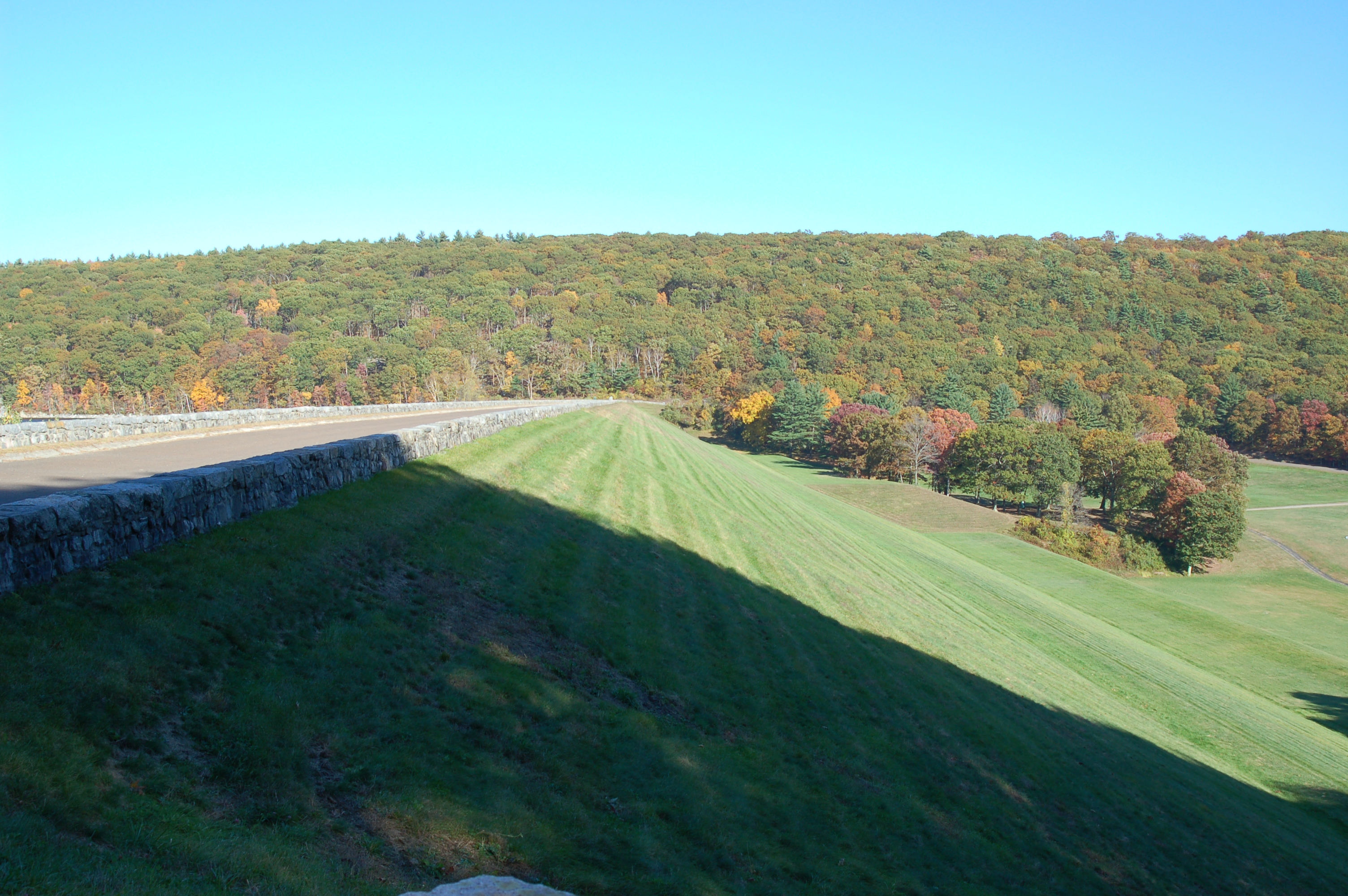 Photo taken by Author, Richard B. Johnson